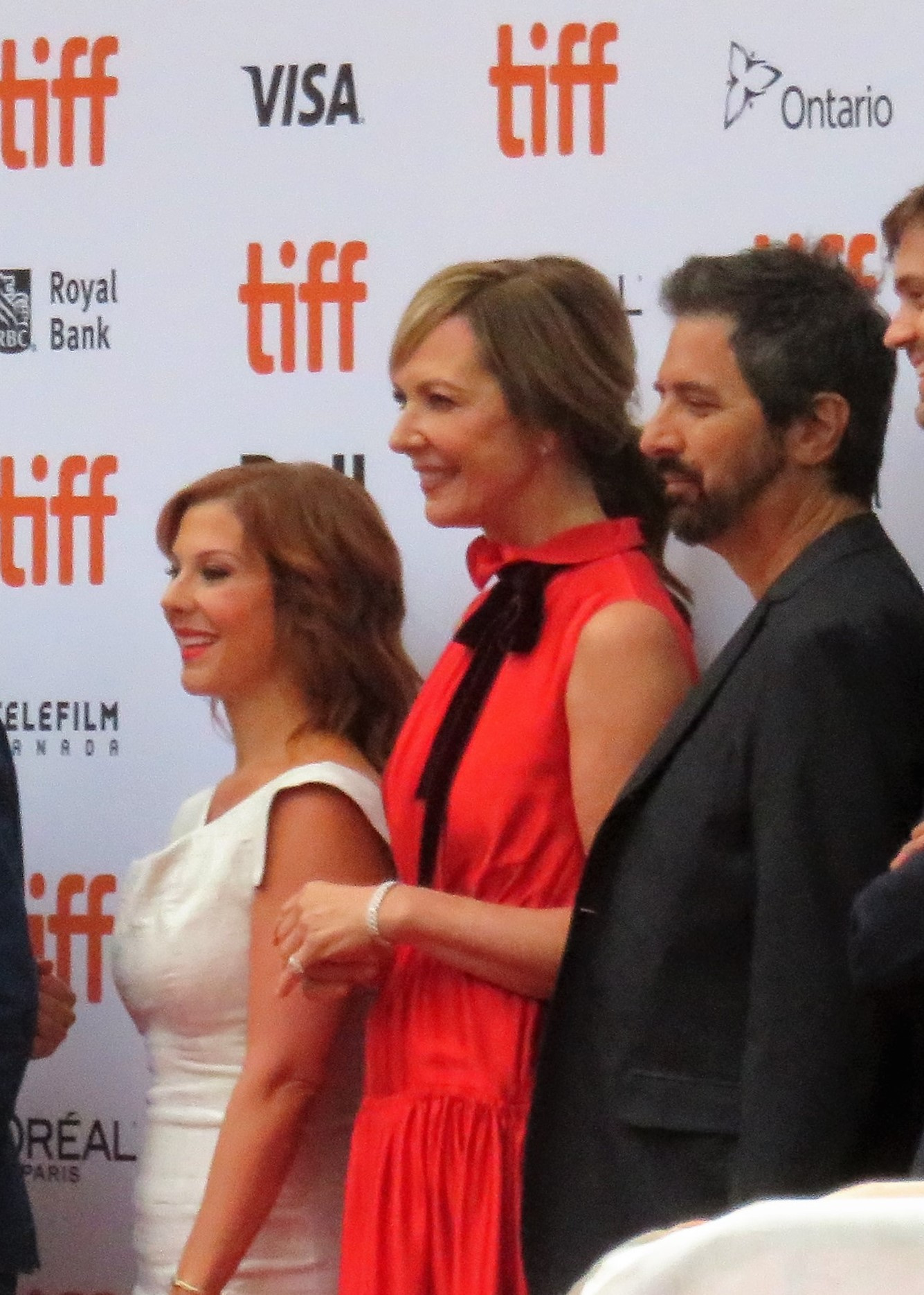 Stephanie Kurtzuba, Allison Janney, Ray Romano attend the "Bad Education" premiere during the 2019 Toronto International Film Festival at Princess of Wales Theatre